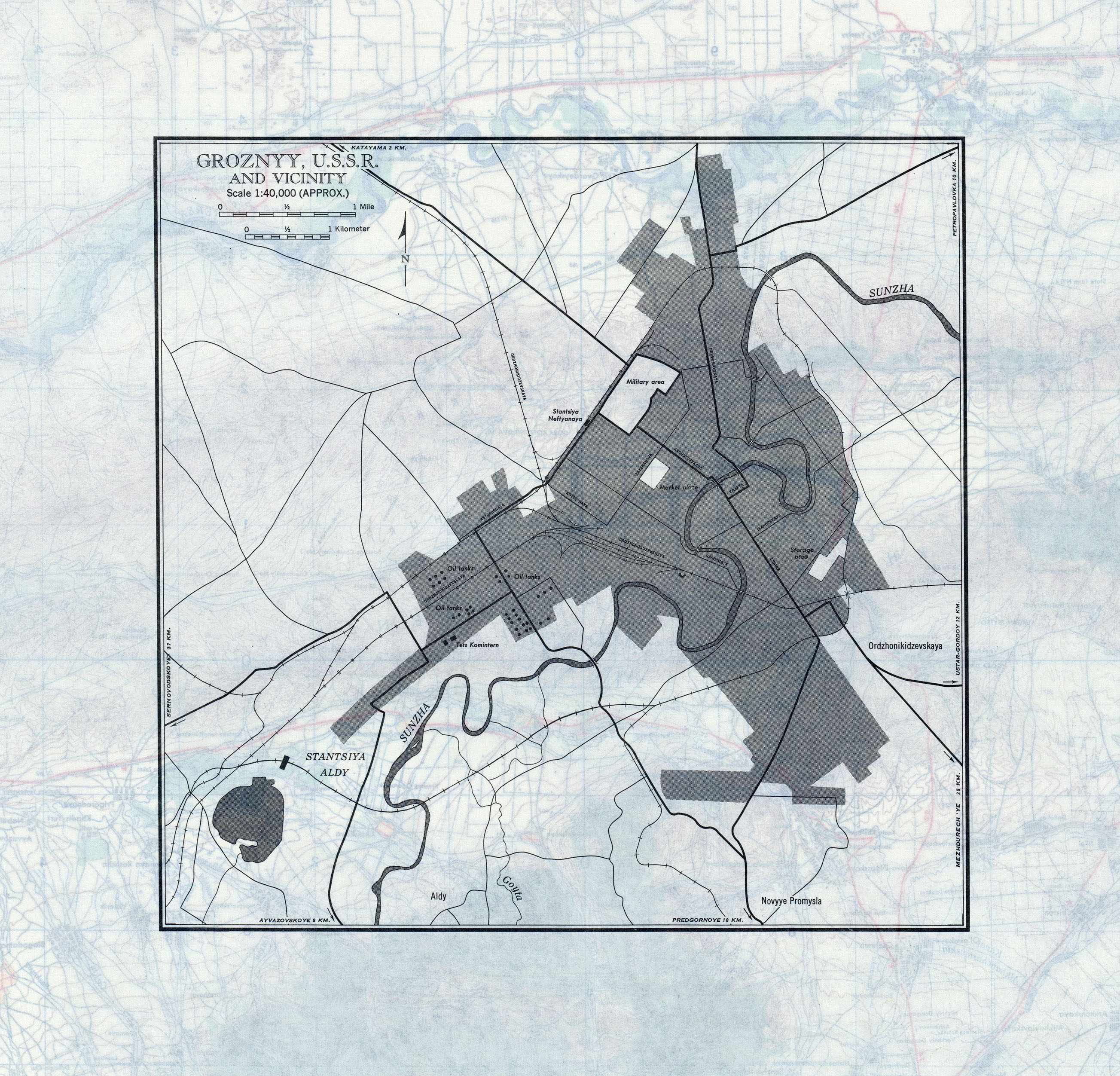 List from Eastern Europe AMS Topographic Maps. Series N501, U.S. Army Map Service, 1954